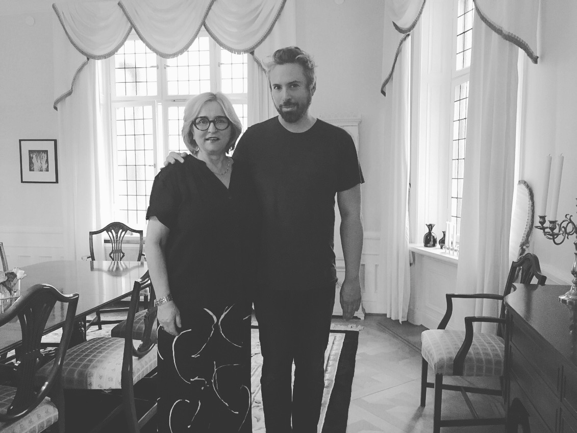 Estrid Brekkan, iceland ambassador in Sweden and the filmmaker hypnotist Gurwann Tran Van Gie for Pølar Festival - Stockholm